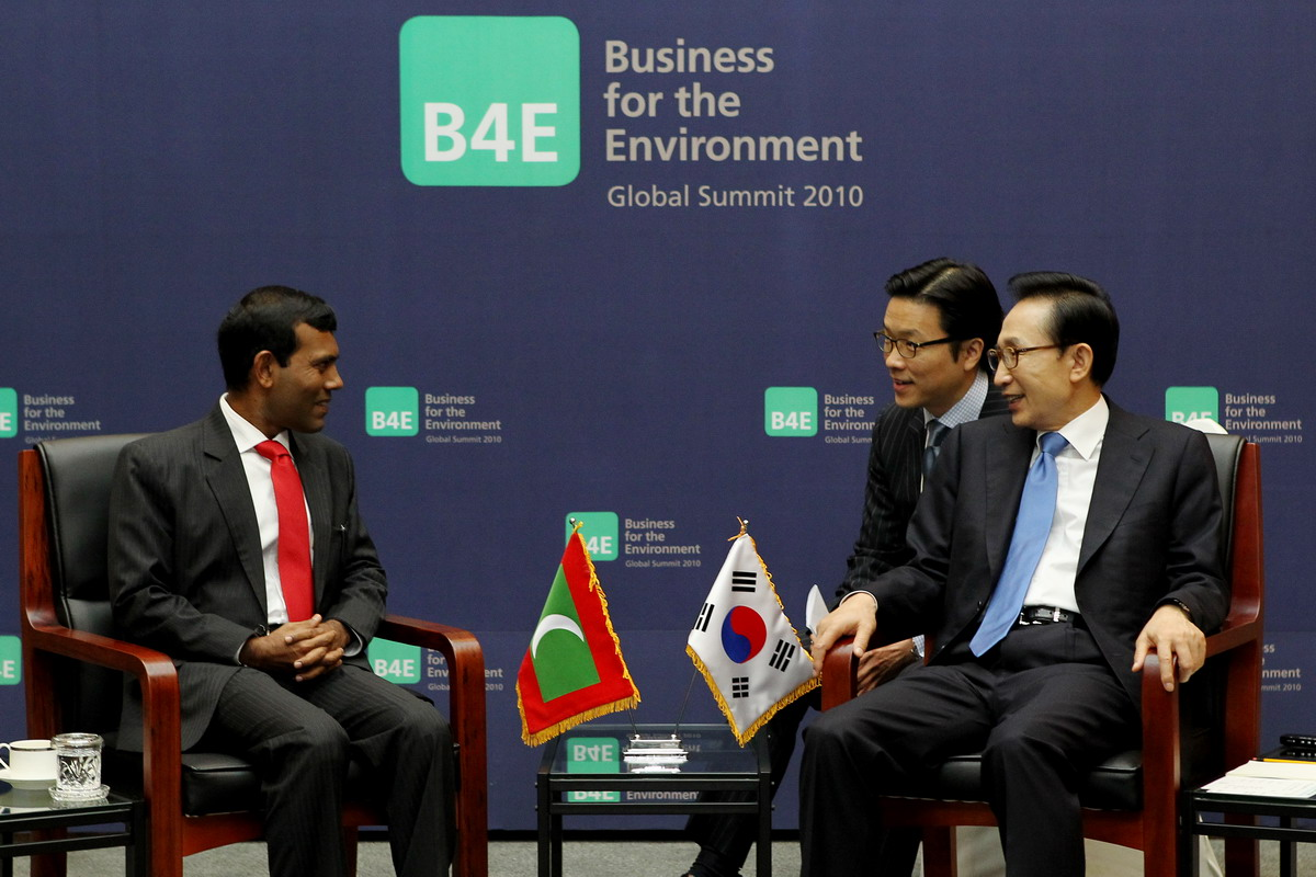 During the the Business for the Environment (B4E) Global Summit, President Lee was joined by President of Republic of Maldives Mohamed Nasheed.